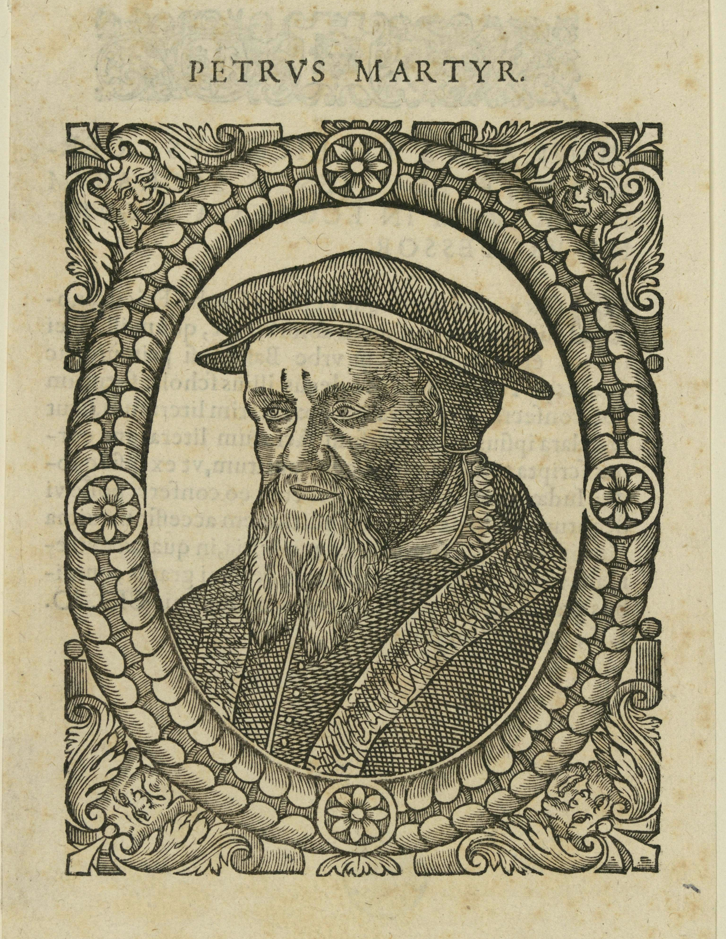 Woodcut of Peter Martyr Vermigli from Beza's Icones